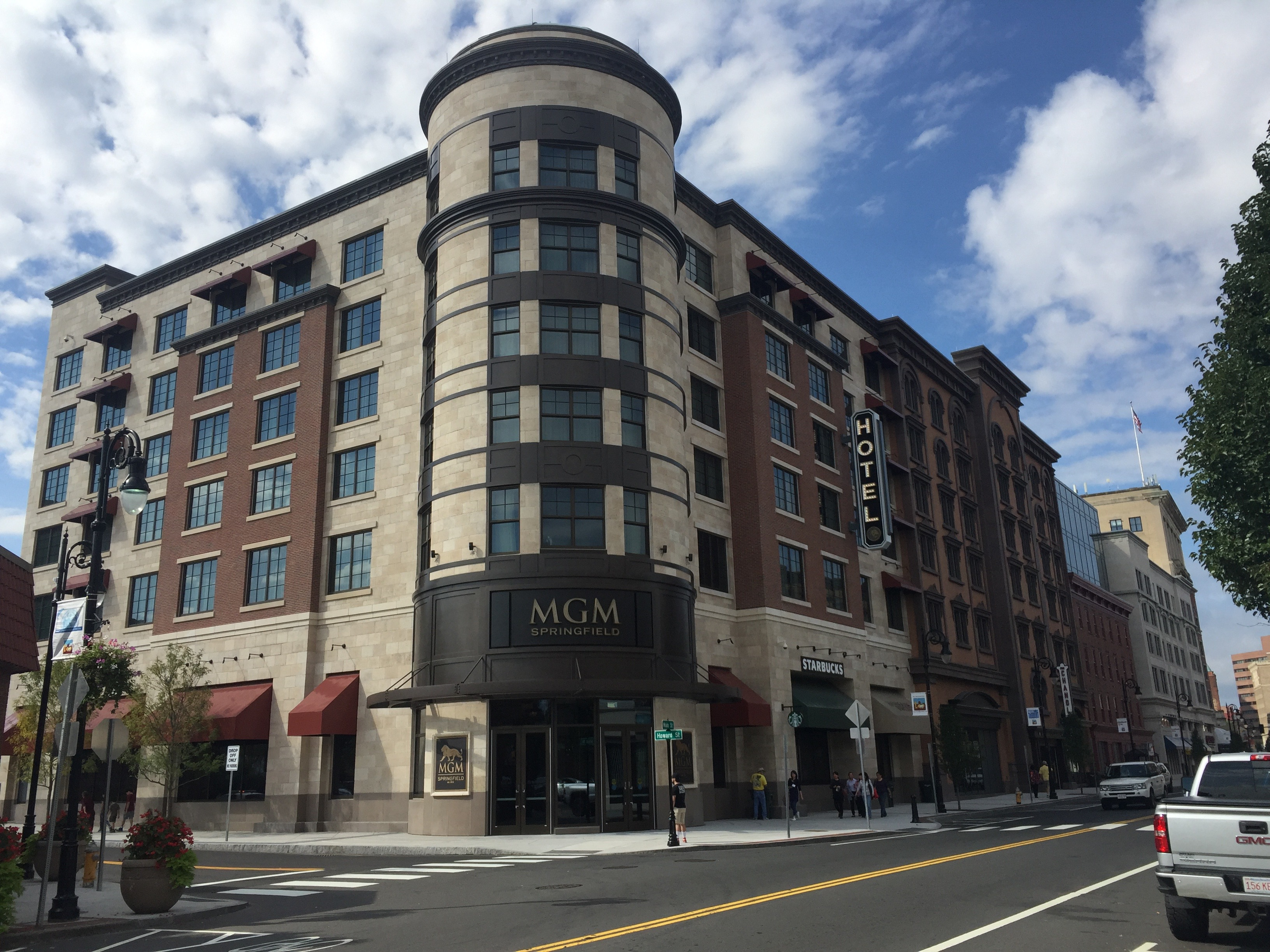 A view of the block comprising the MGM Springfield from Main Street (Facing North West).